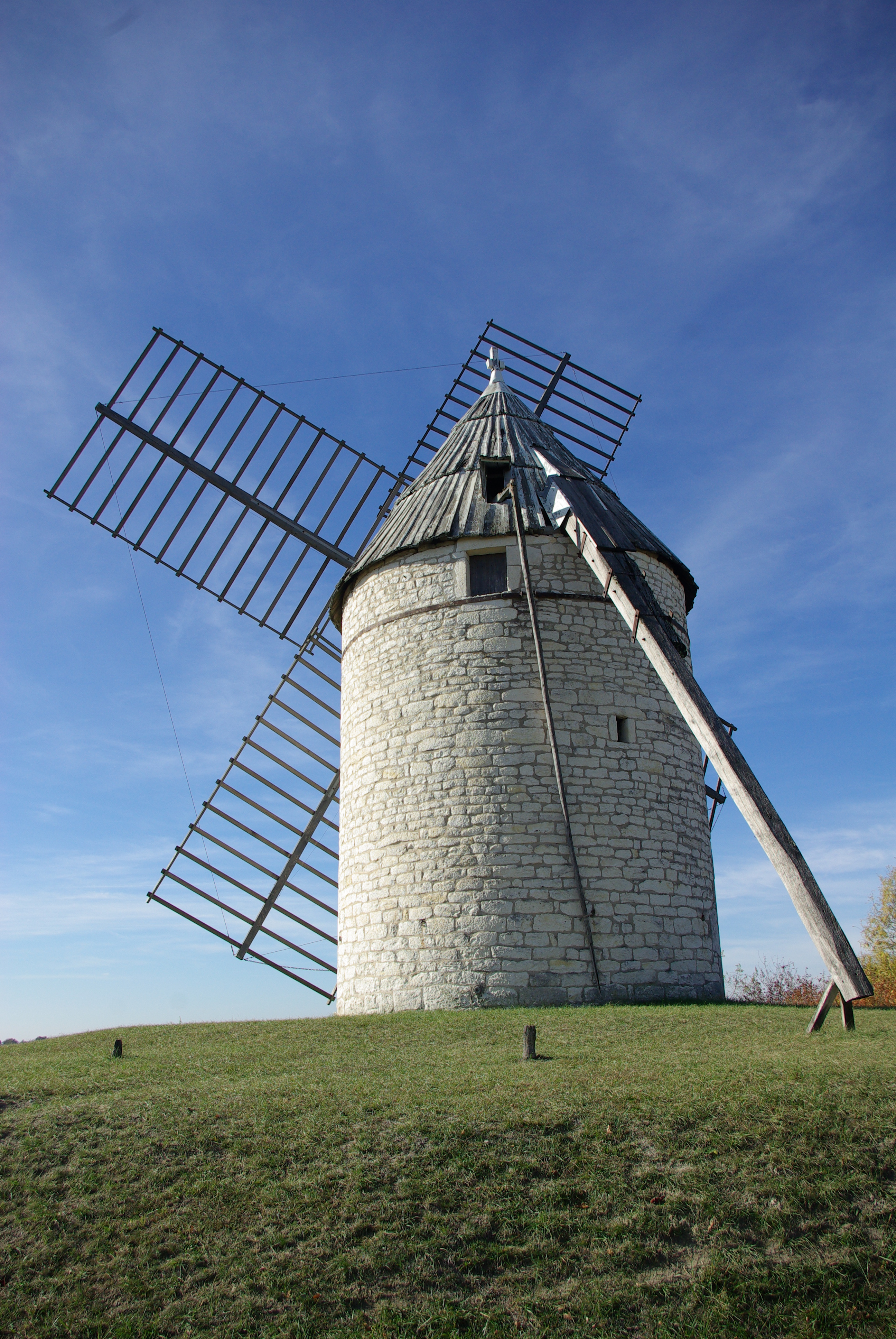 Tower windmill of Boisse (commune of Sainte-Alauzie, Lot, France).